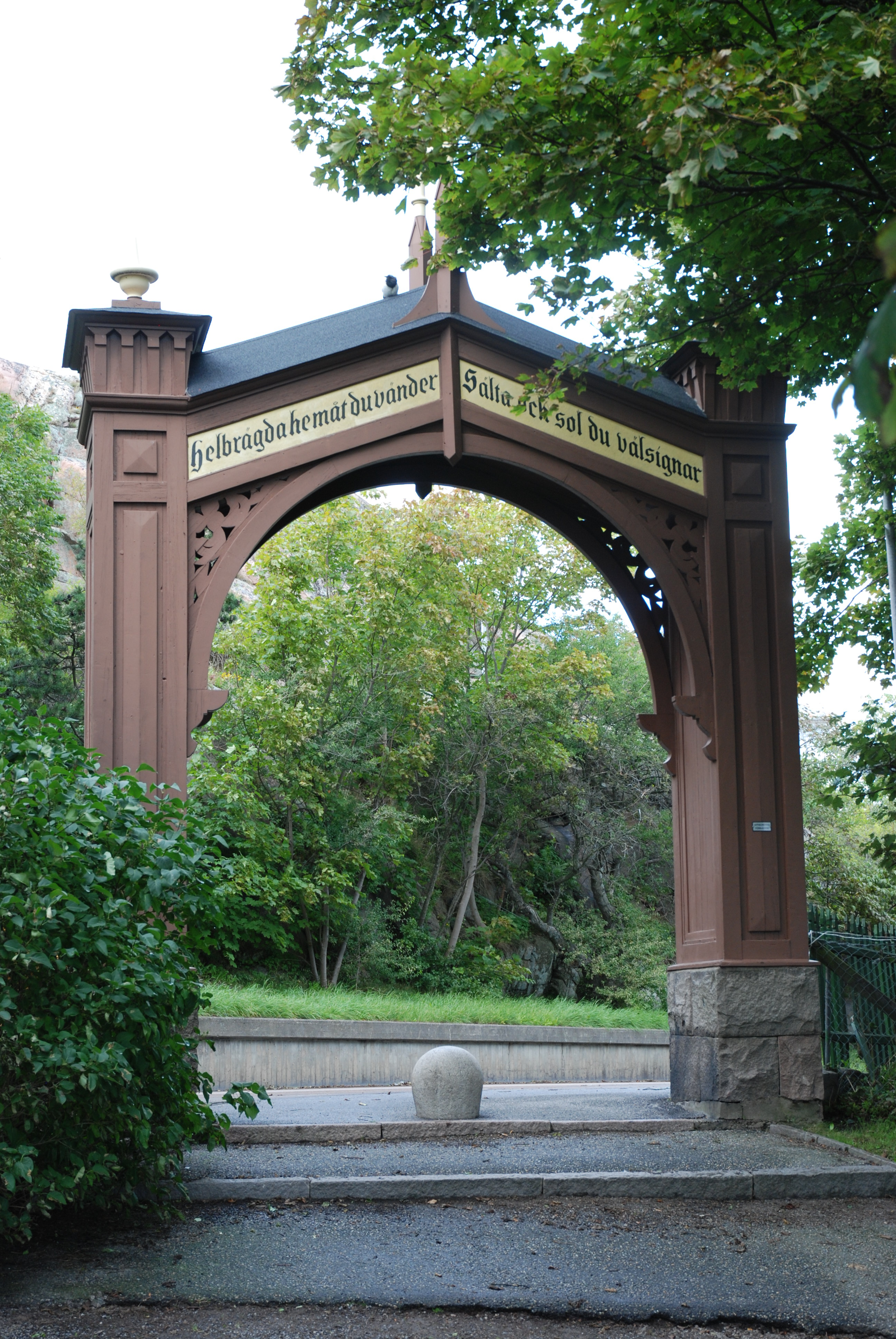 Entre till badhusparken i8 Lysekil